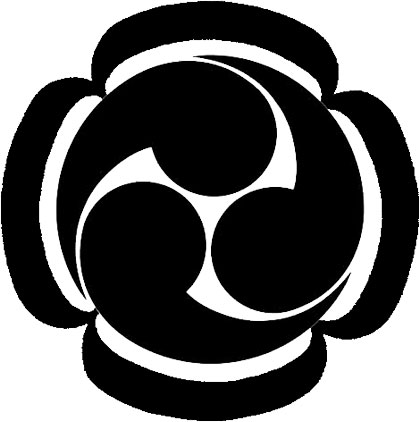 Hitoe Shihoso ni Hidari Mitsudomoe